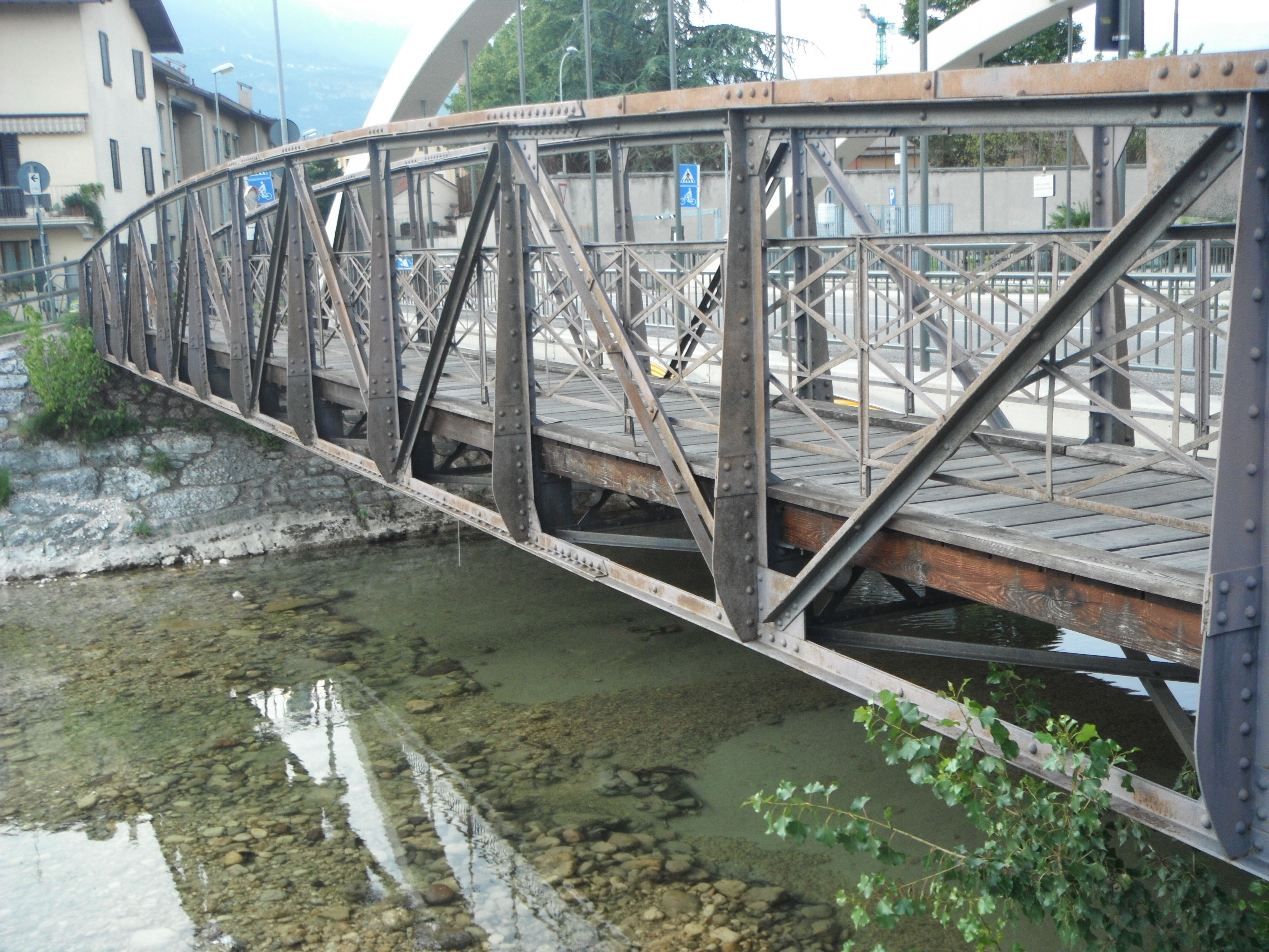 Zigherane bridge, Rovereto